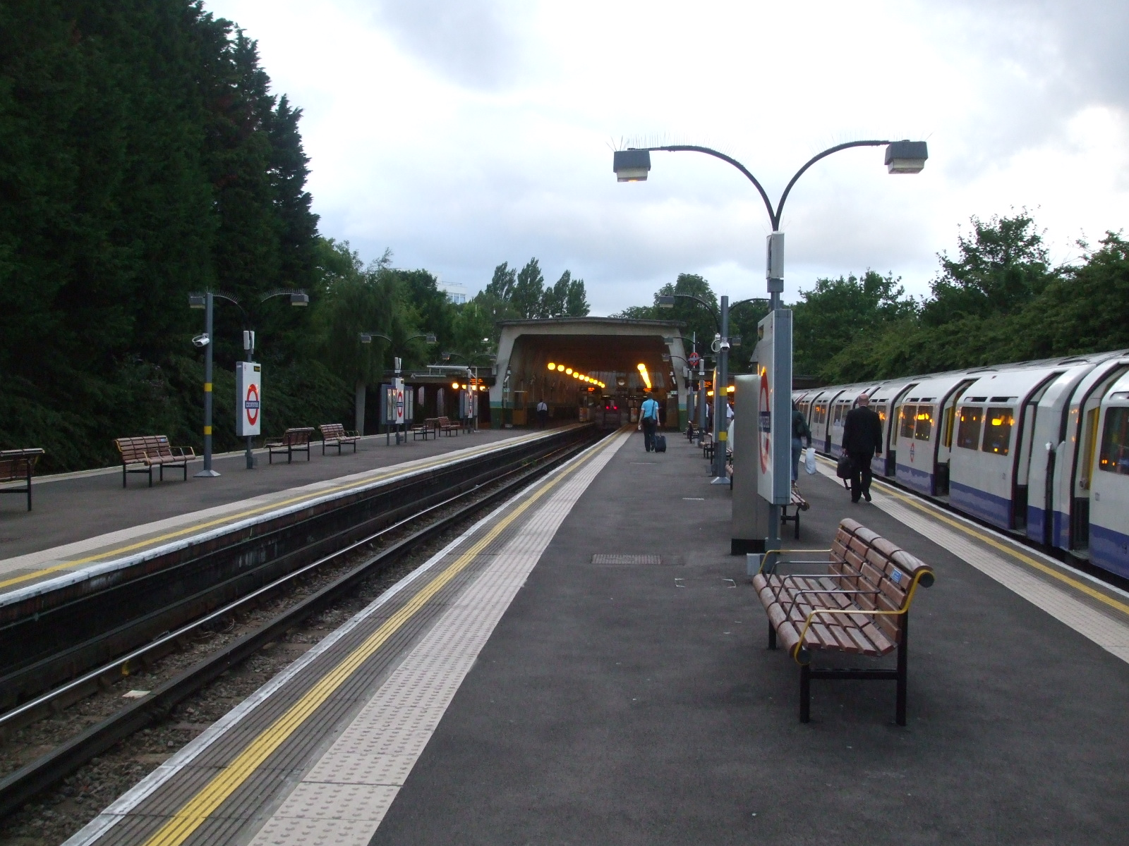 Cockfosters tube station centre track platforms 2 and 3 (right) looking "eastbound"